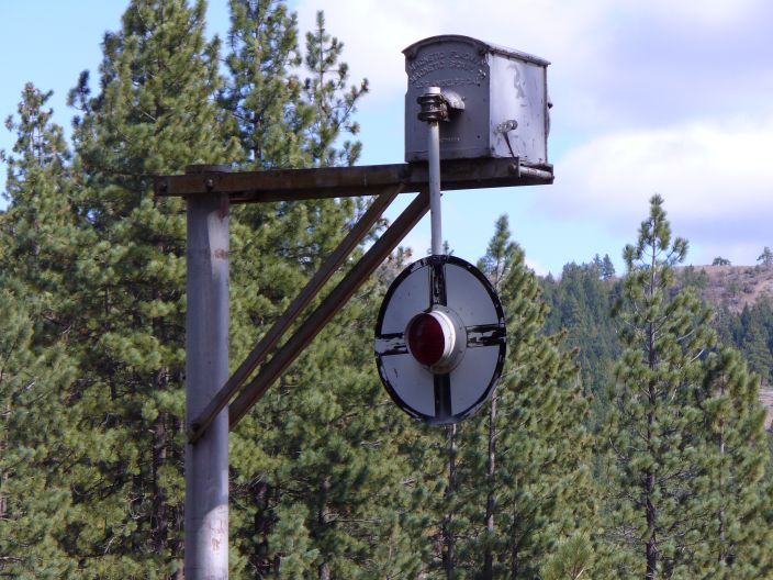 This is a Magnetic Flagman I found in Portola, California on an abandoned piece of rail along highway 70.